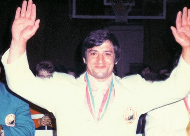 Vasile Groapa, 1984 Olympics